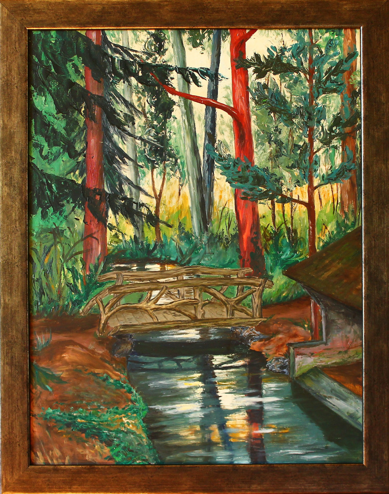 Landscape in the area of "Le Grand Fossard" a French hamlet of the town of Esmans in Seine-et-Marne.